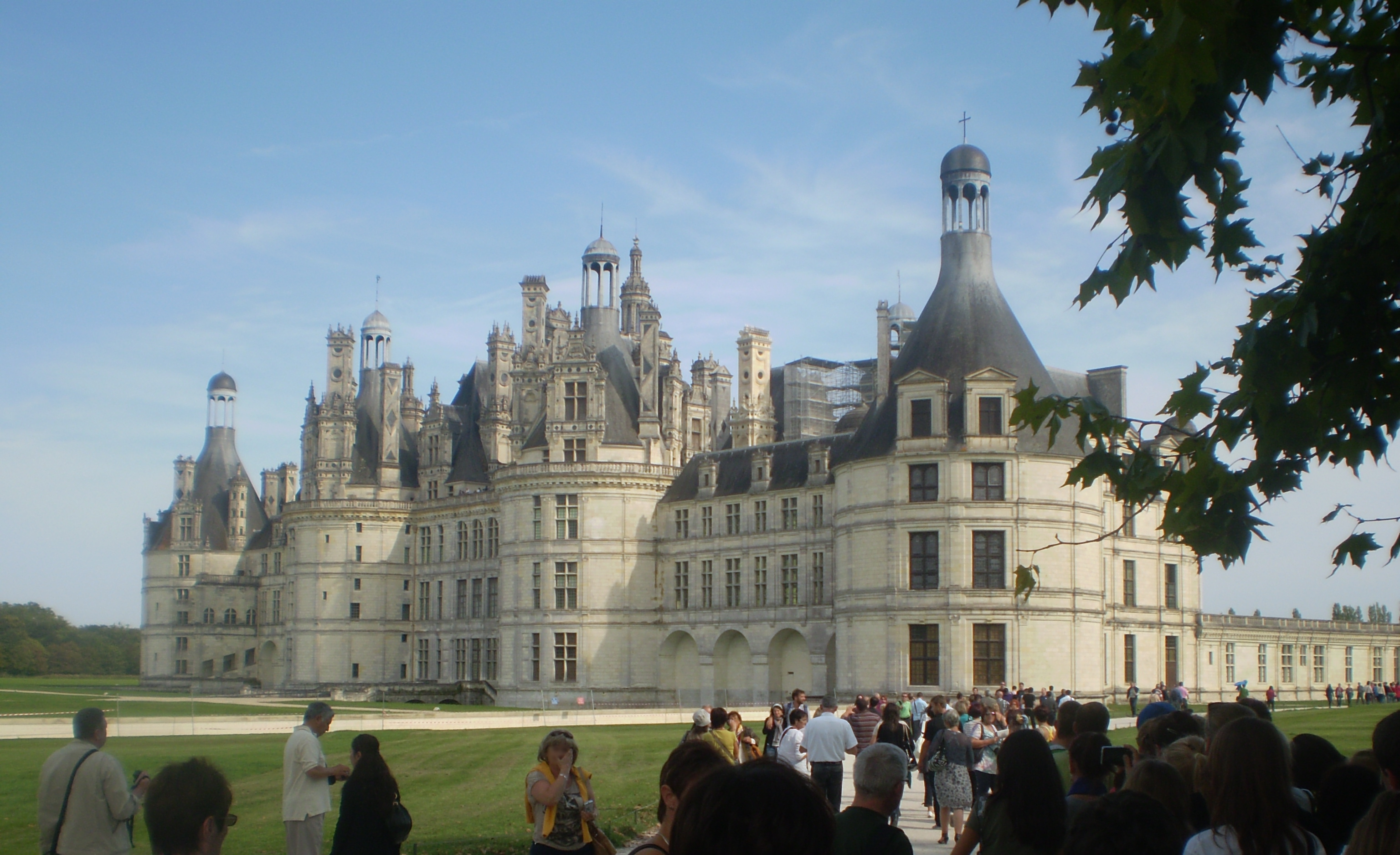 The Castle in Chambord - the biggest castle in Loire Valley.